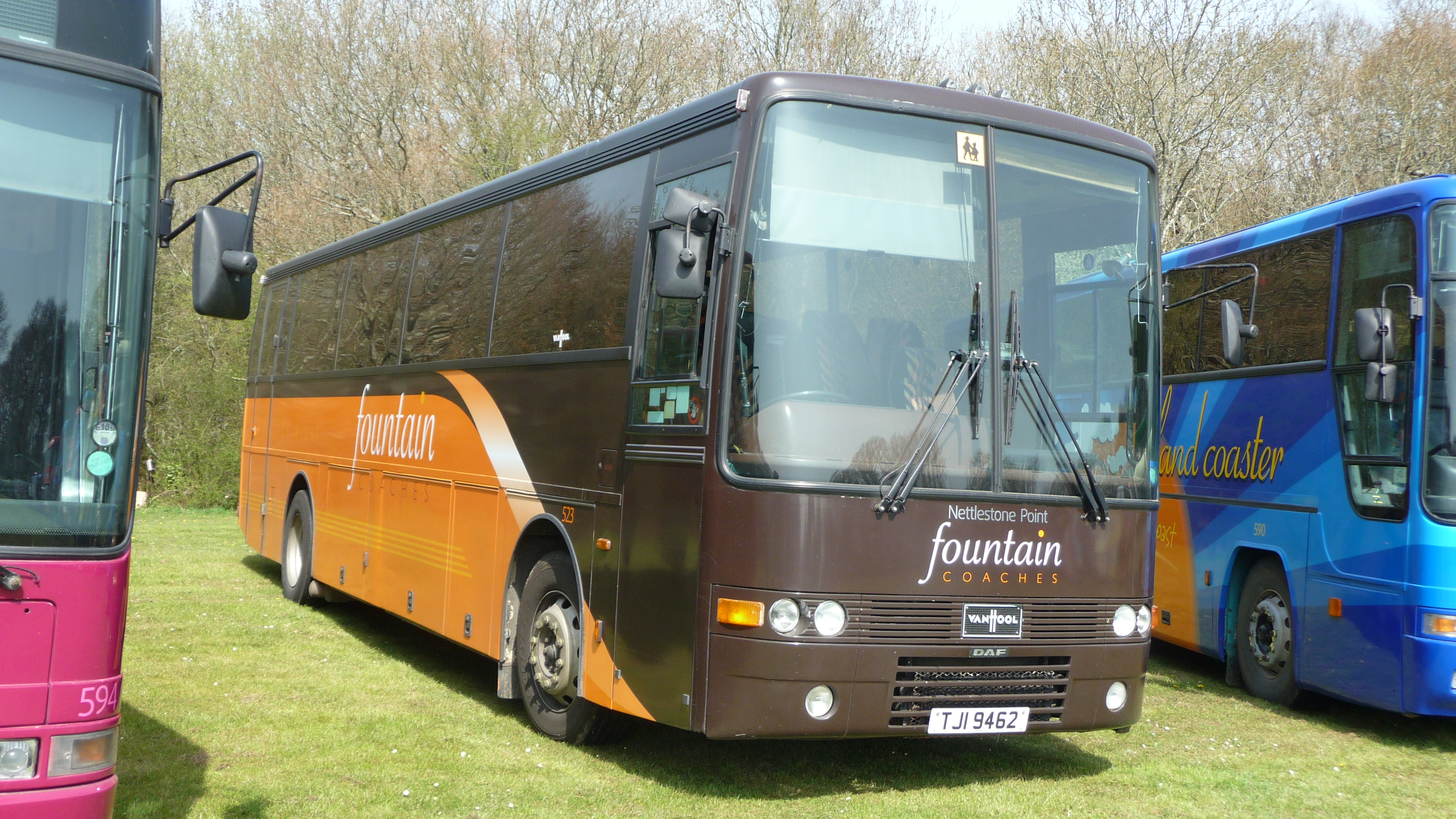 Seen at the 2010 Bustival event, held by Southern Vectis, at Havenstreet, Isle of Wight, railway station showground. Southern Vectis 523 Nettlestone Point (TJI 9462), a DAF MB230/Van Hool Alizee. It wears Fountain Coaches livery.